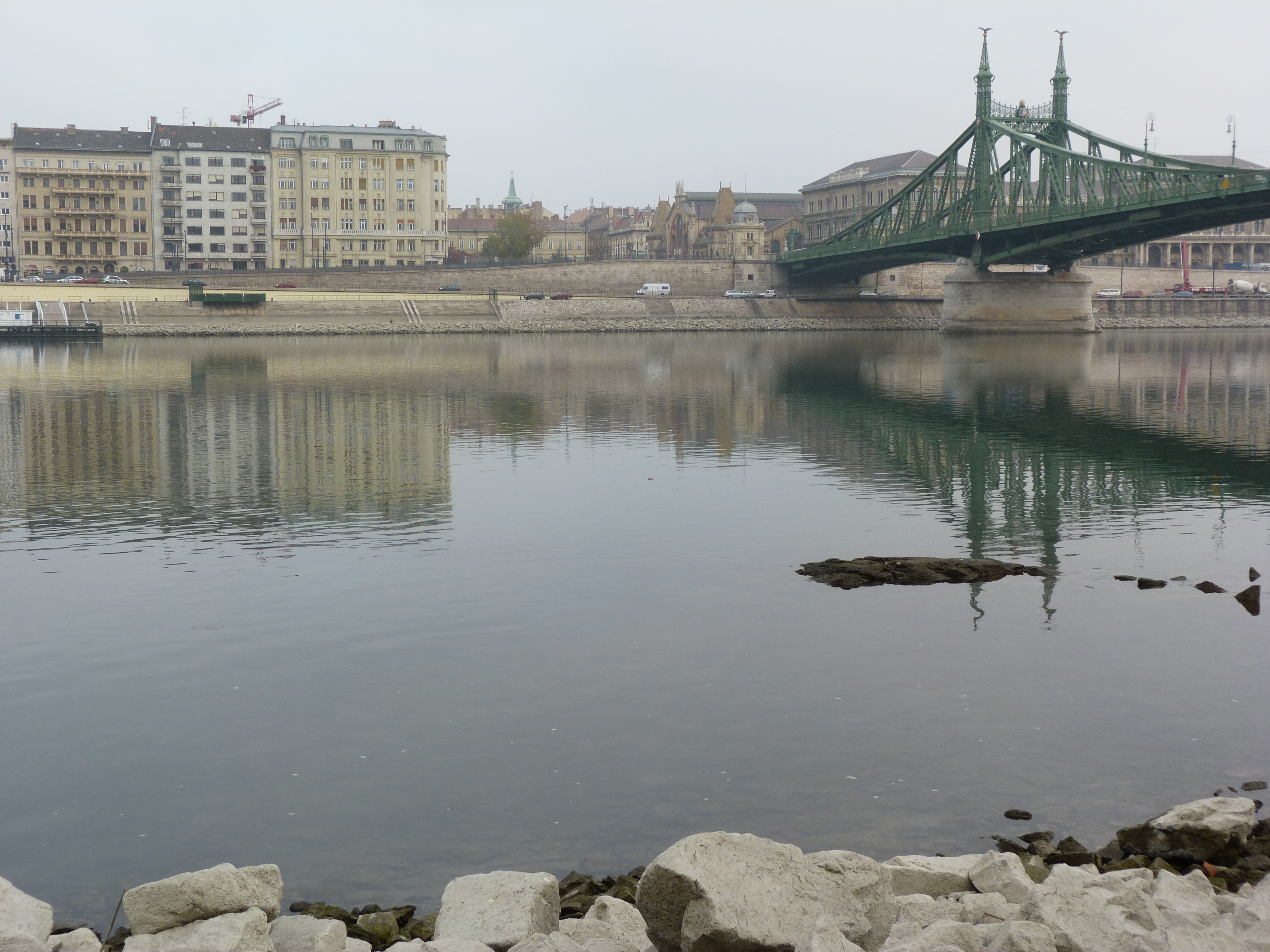 Hunger-rock Live at Budapest, on the 23rd of November, 2011. A rock – usually covered with water – in the Danube. At the foot of the Gellért-hill. When you see it, hunger and misery is to come in the next year. Published under Creative Commons int he Metapolisz DVD line. Tags: Hunger-rock Ínség-szikla Budapest Gellért-hill Metapolisz